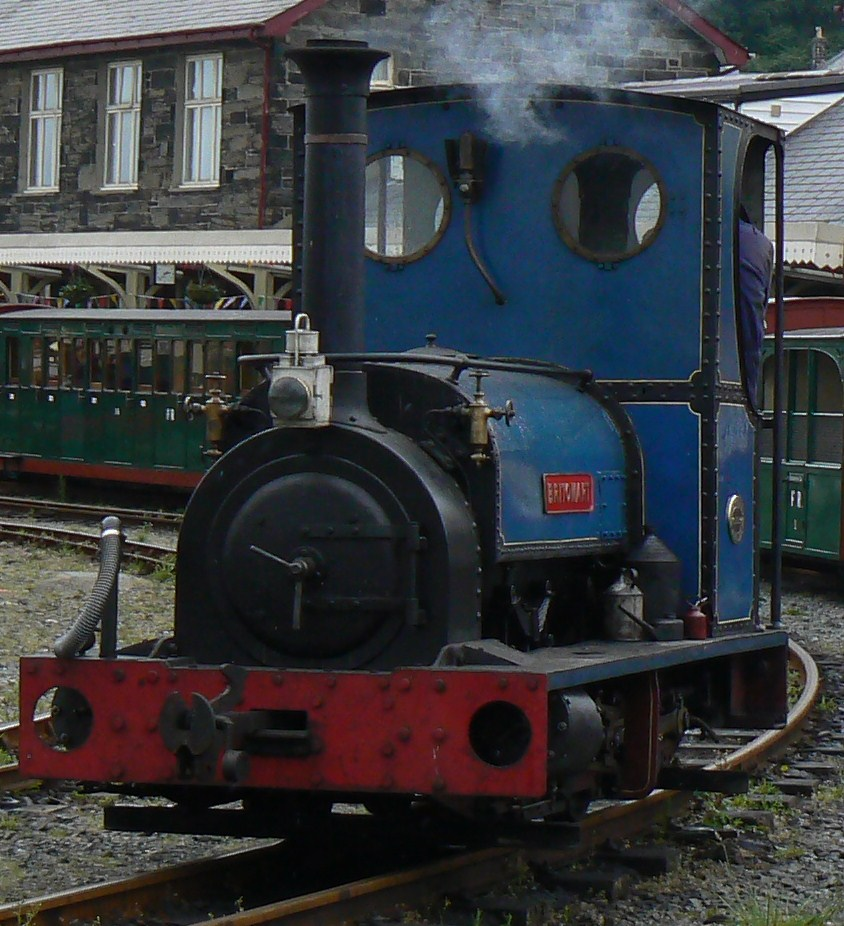 The Ffestiniog Railway's 175th anniversary at Porthmadog Harbour railway station. The locomotives Criccieth Castle (rear left), Velinheli (hiding behind carriages), Prince and Britomart.